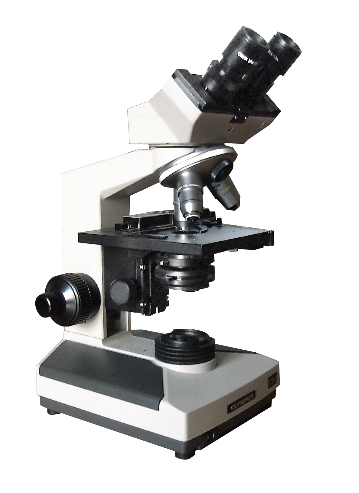 Olympus CH2 microscope